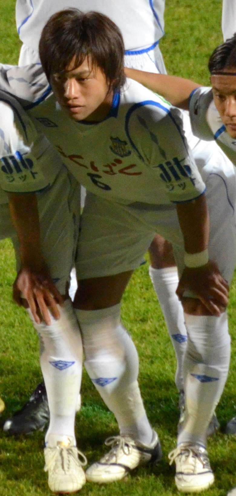 Yutaka Yoshida cropped from DSC_1758